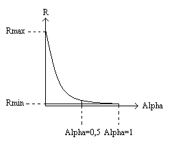 Logarithmetic potentiometer transfer function